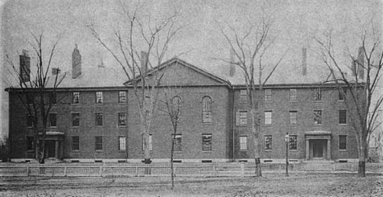 Divinity Hall, Harvard University, USA